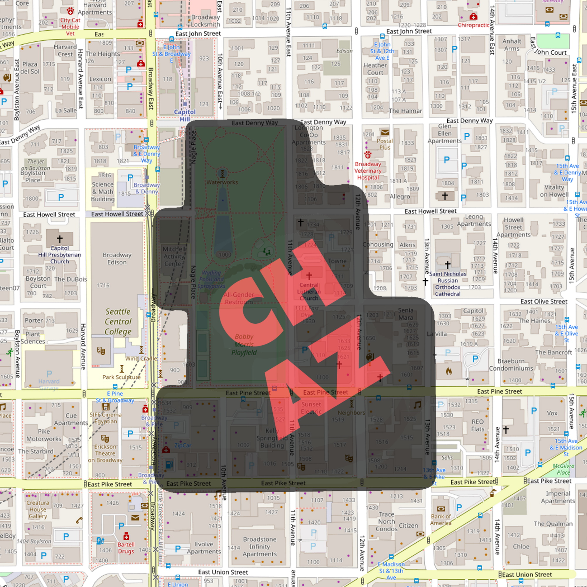 map of self-declared Capitol Hill Autonomous Zone, as of 10 June 2020. Click here for interactive map